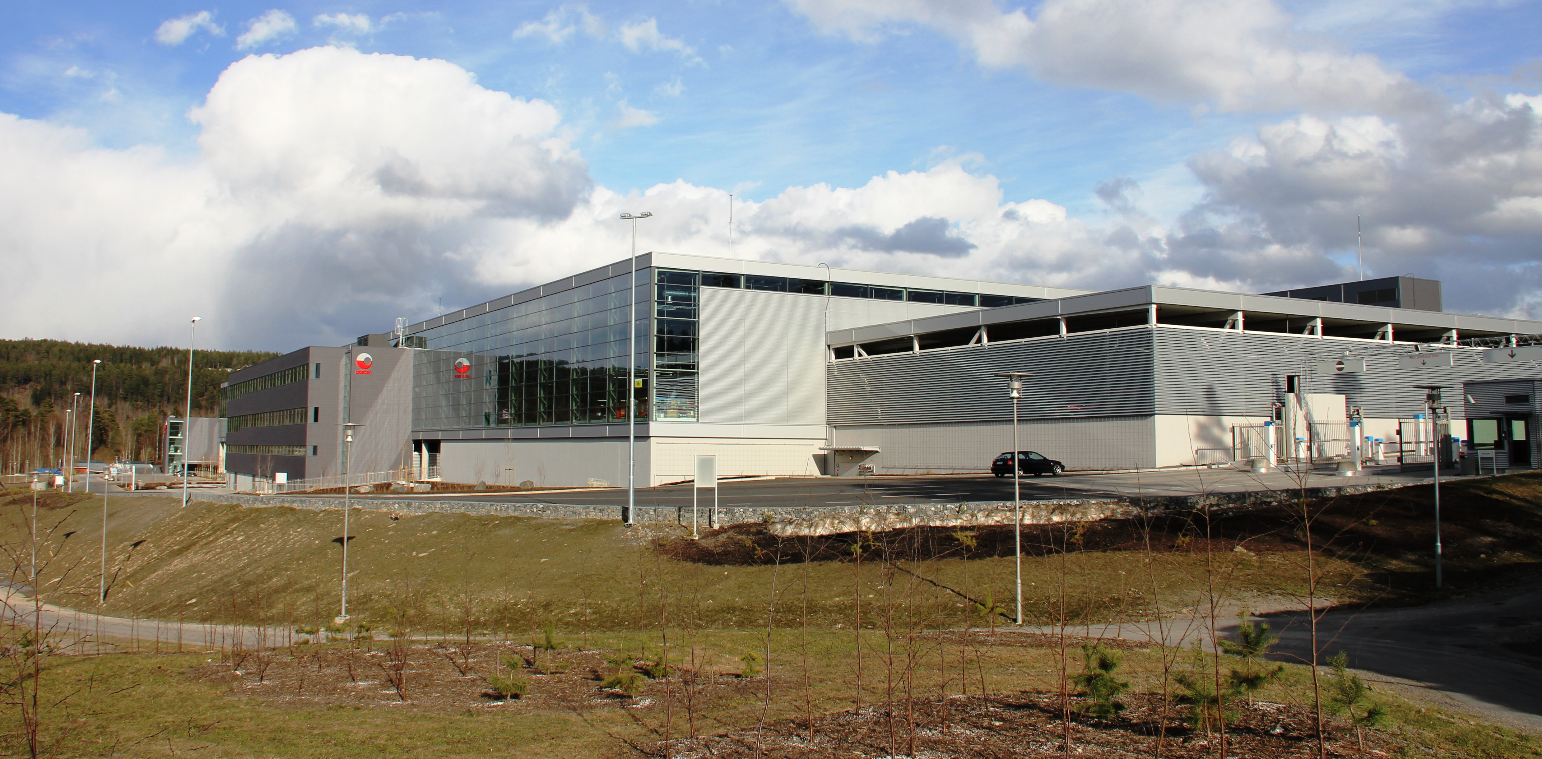 Postens Østlandsterminal, Lørenskog. The main post-terminal in Eastern Norway